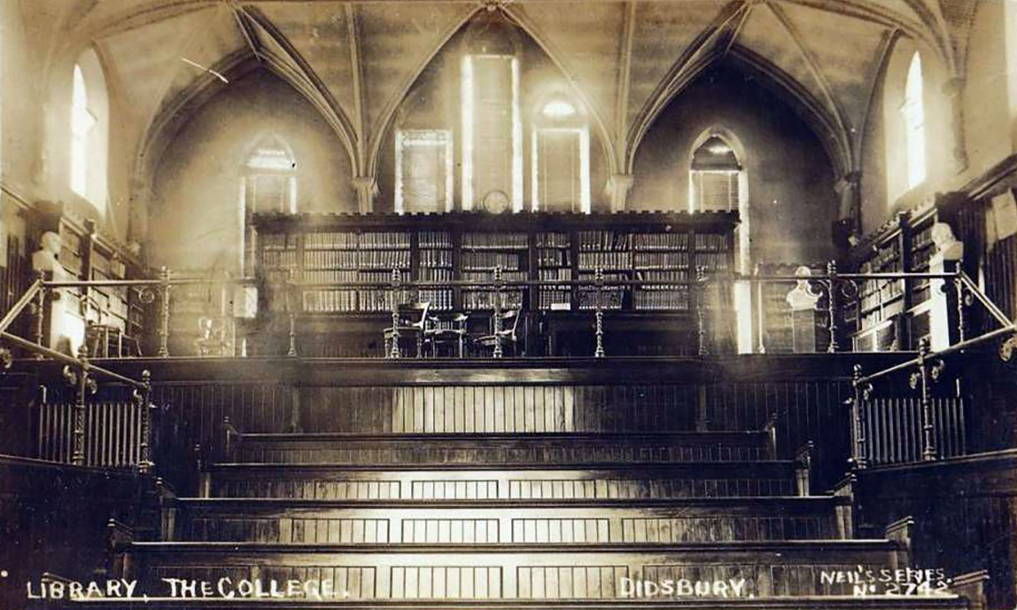 The library at Didsbury College, 1911. This building was formerly the chapel, and it is grade II listed.